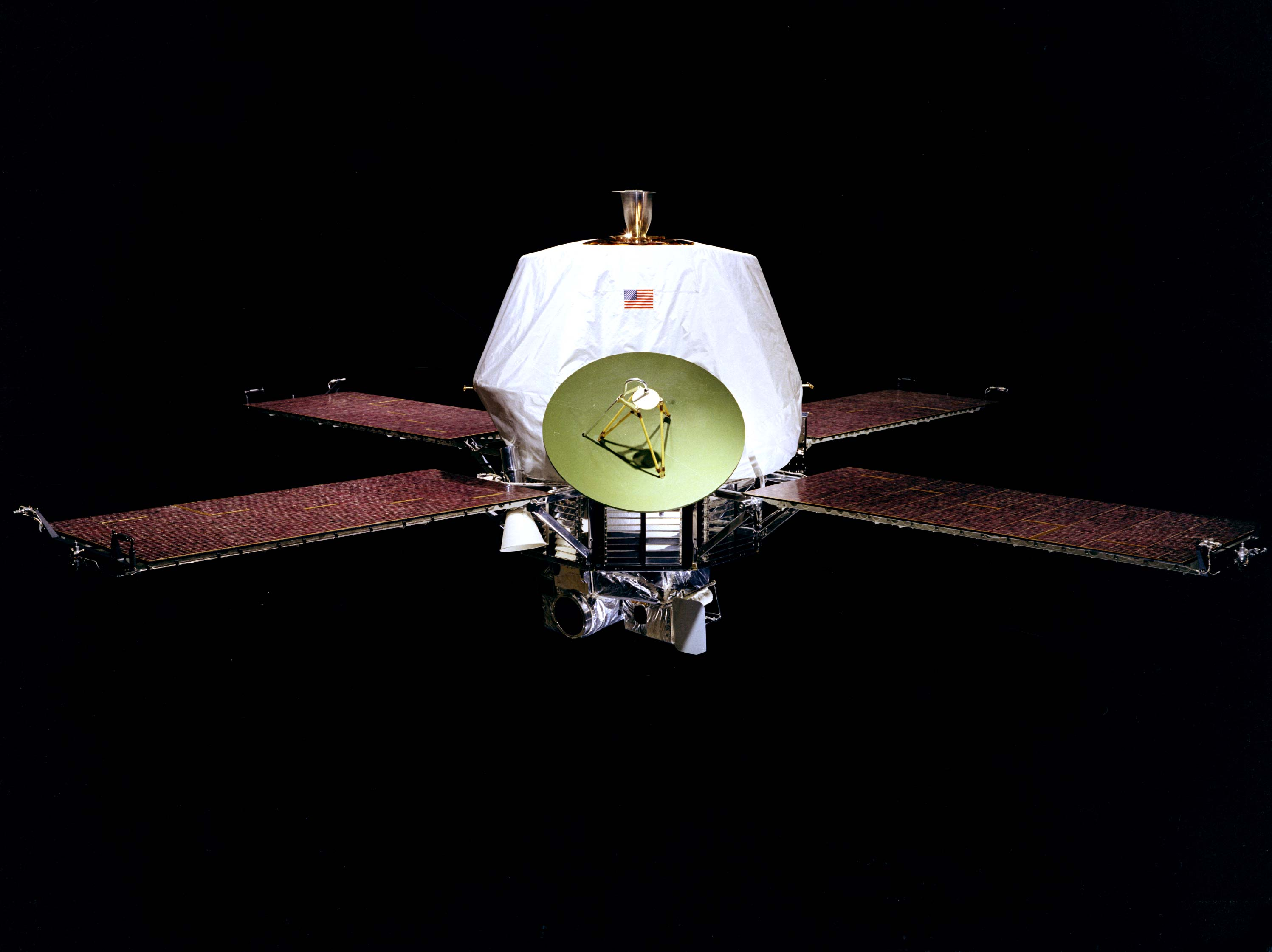 Mariner-71H (also called Mariner-H) was the first of a pair of American spacecraft intended to explore the physical and dynamic characteristics of Mars from Martian orbit. The overall goals of the series were to search for an environment that could support life; to collect data on the origin and evolution of the planet; to gather information on planetary physics, geology, planetology, and cosmology; and to provide data that could aid future spacecraft such as the Viking Landers. Launch of Mariner-71H was nominal until just after separation of the Centaur upper stage, when a malfunction occurred in the stage's flightcontrol system, leading to loss of pitch control at an altitude of 148 kilometers at T+4.7 minutes. As a result, the stack began to tumble and the Centaur engines shut down. The stage and its payload reentered Earth's atmosphere approximately 1,500 kilometers downrange from the launch site.